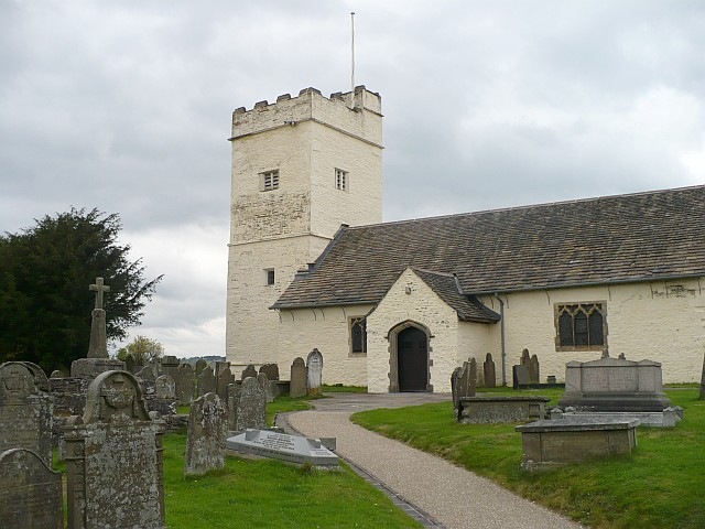 St Sannan's Church, Bedwellty This church, dating from the 13th century, is prominently situated at 300m on a ridgeway. For some historical information on the Parish of Bedwellty .